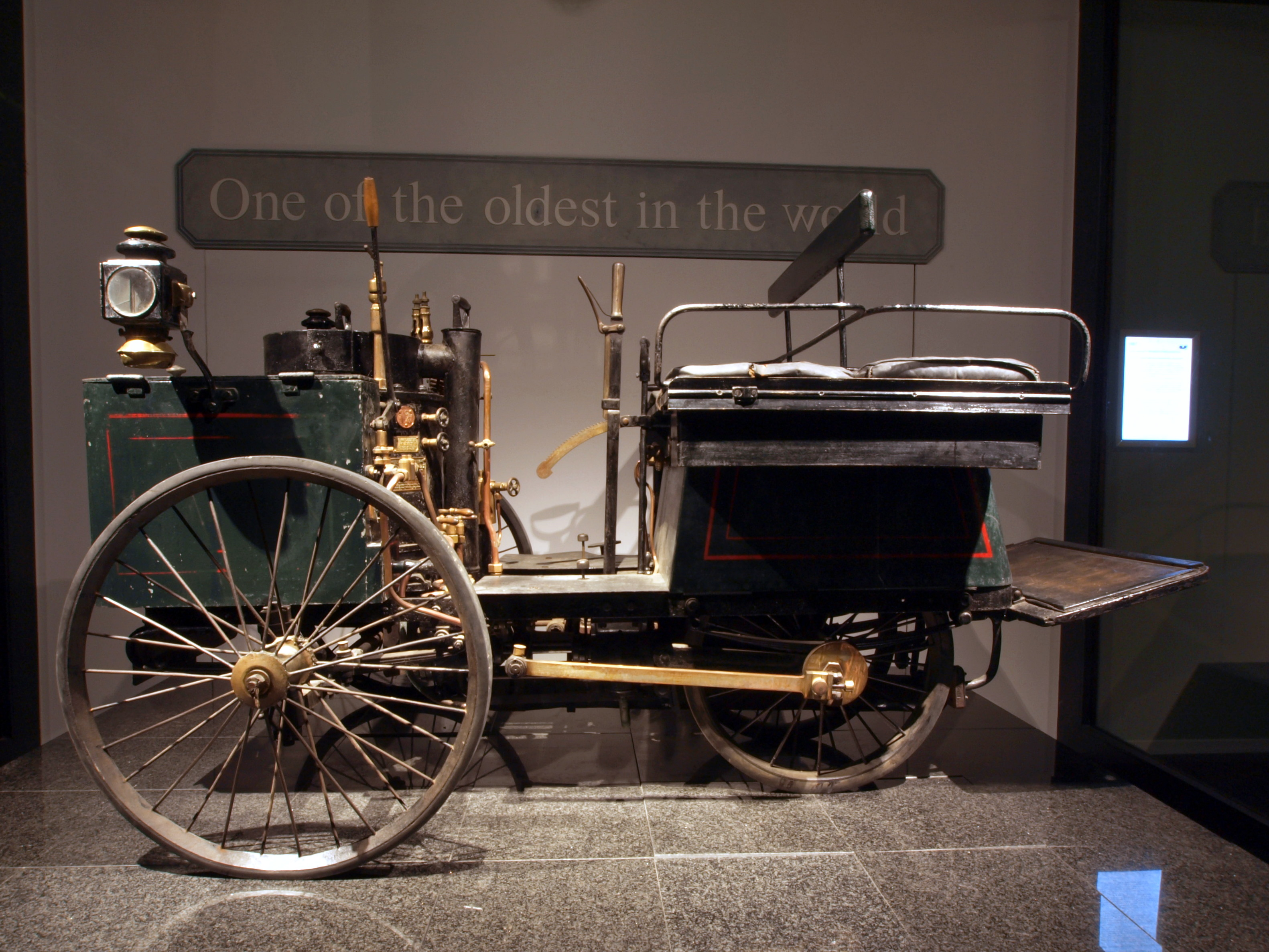 1887 De Dion-Bouton et Trépardoux steam quadricycle, one of the oldest cars in the world. Photographed at the Louwman museum, The Netherlands.